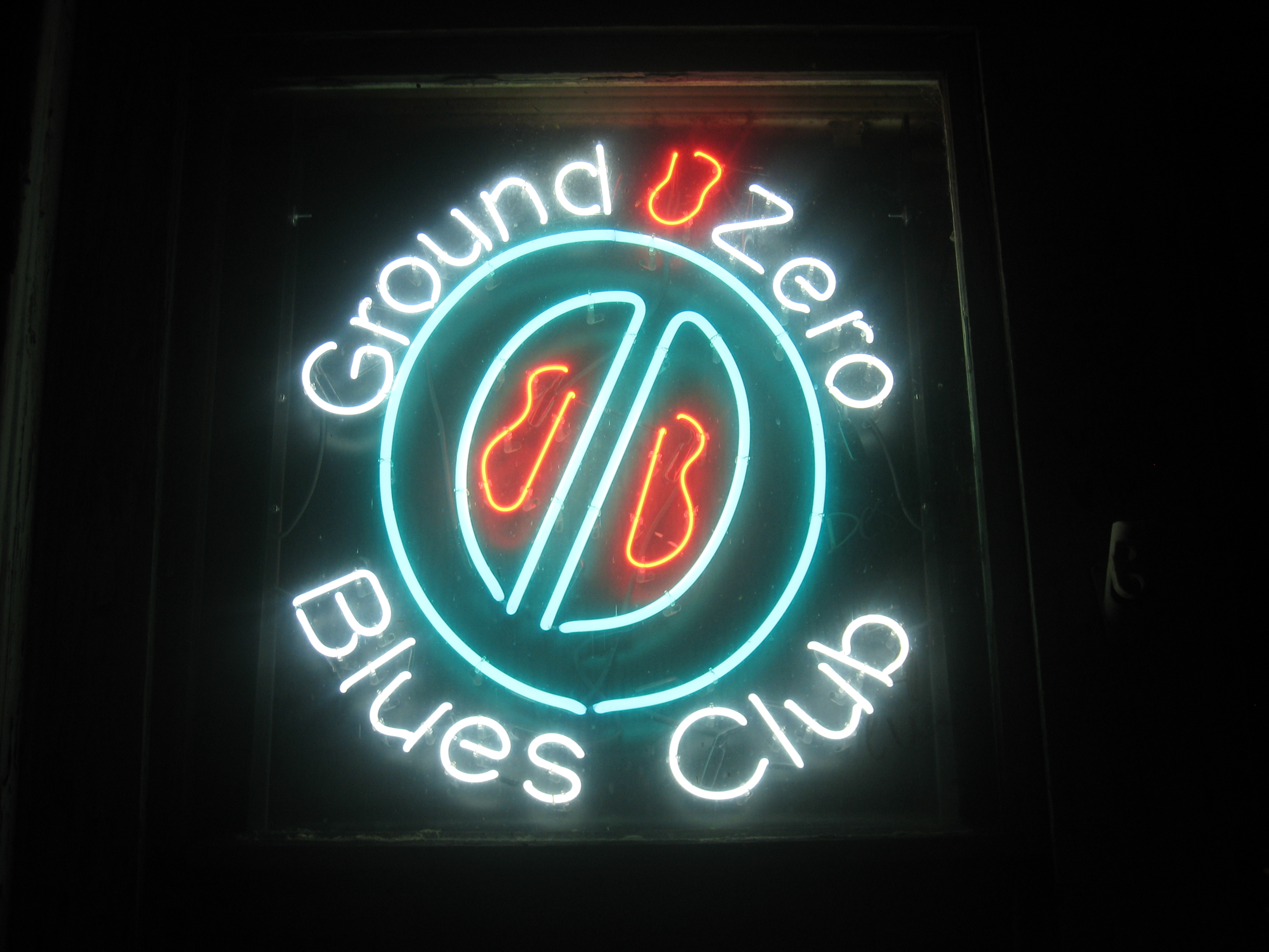 The sign of Ground Zero Blues Club, Clarksdale, Mississippi, United states, at night.